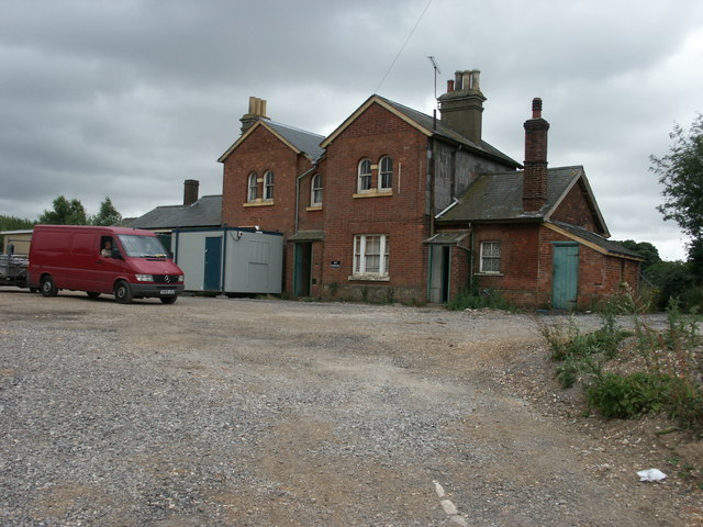 Wilton South Station Wilton South station was opened on 2 May 1859 and closed on 7 March 1966 although the line itself is still used by trains between Salisbury and Exeter. The typical London & South Western Railway building now appears to be in industrial use.